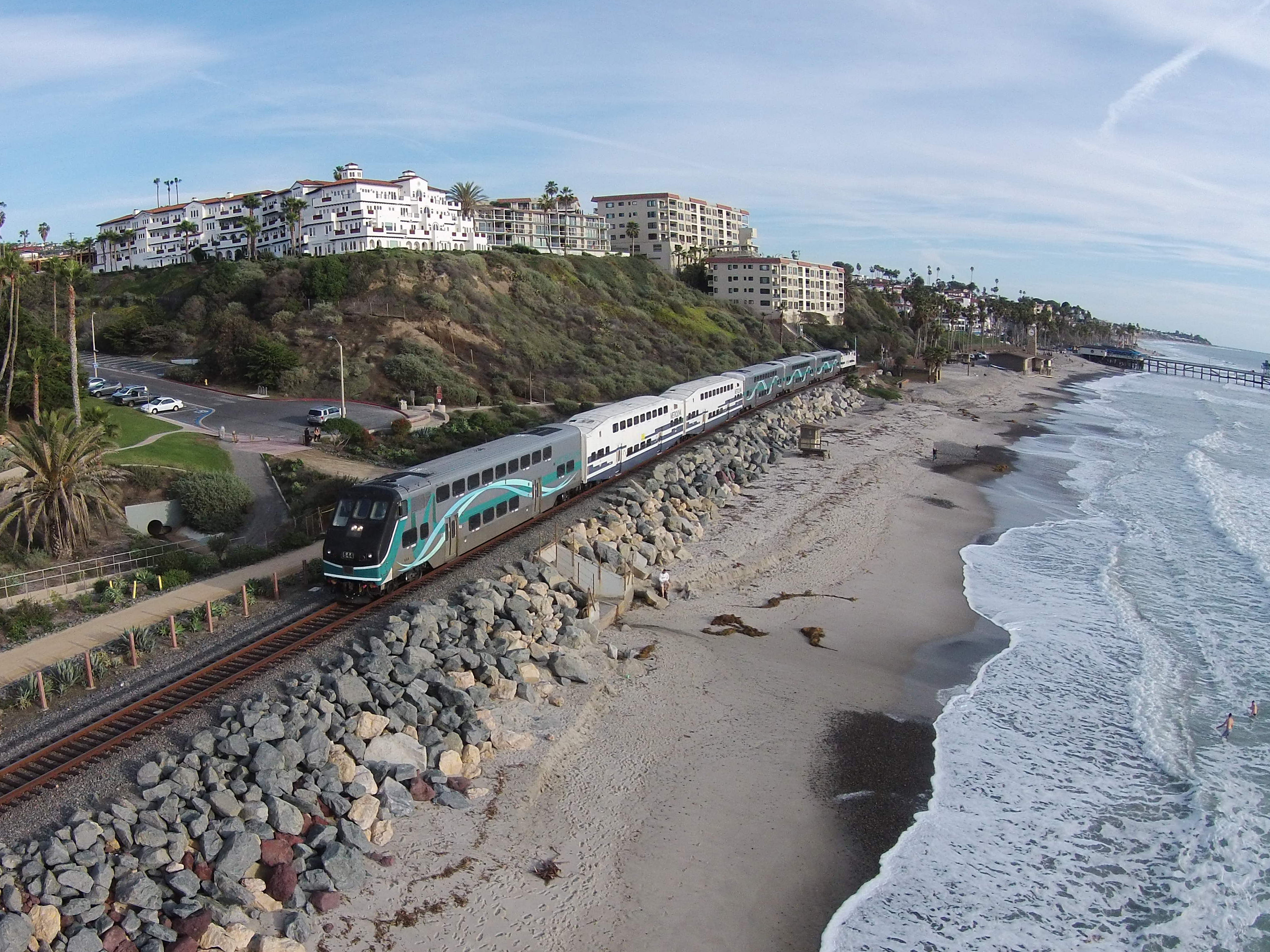 Metrolink San Clemente